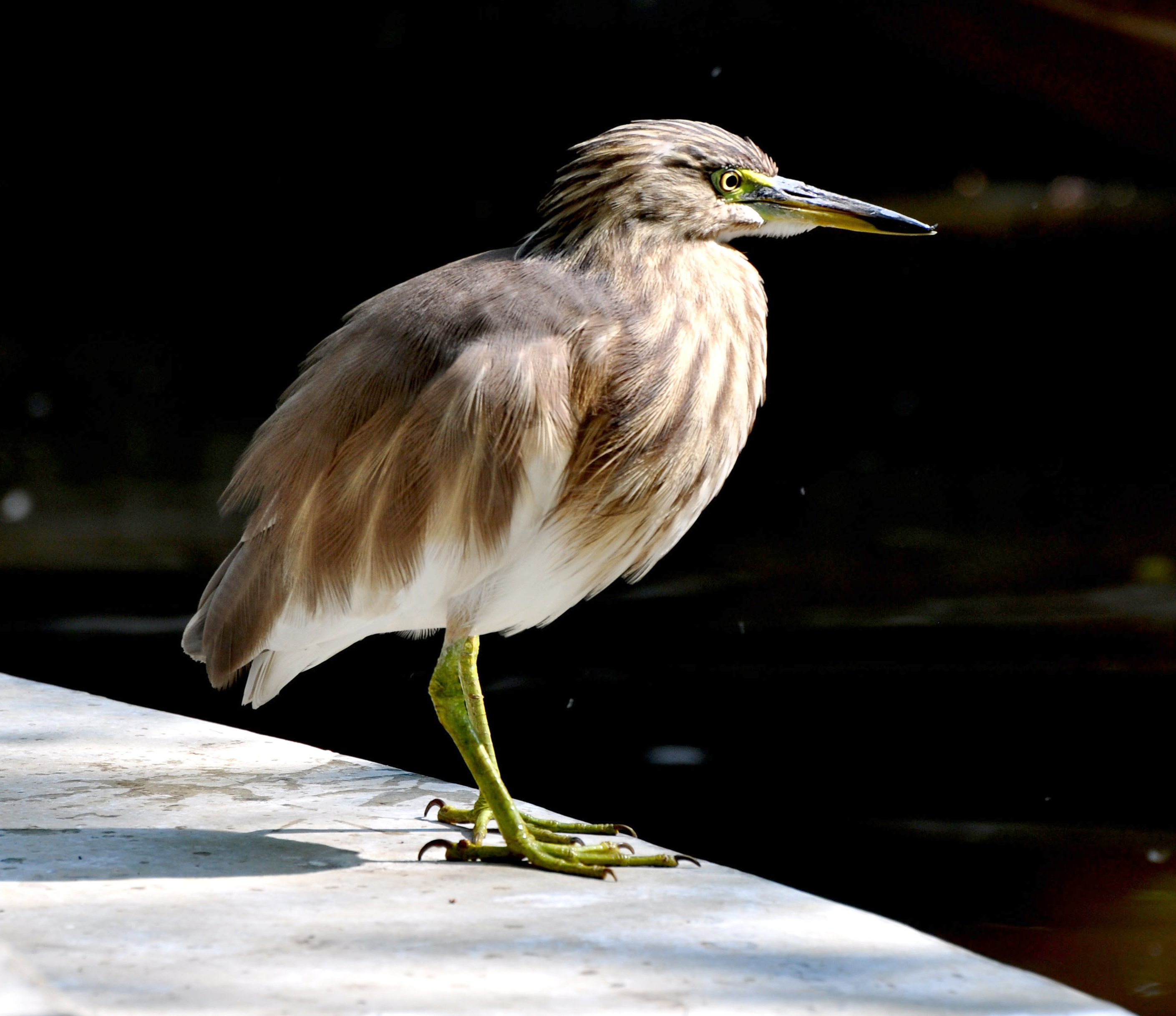 This was a beautiful morning when I saw this beauty waiting for a fish to come out of the water.